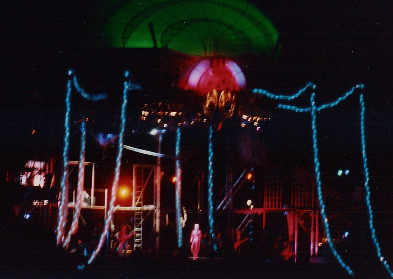 David Bowie's "Glass Spider Tour" in the 1987 Rock am Ring festival